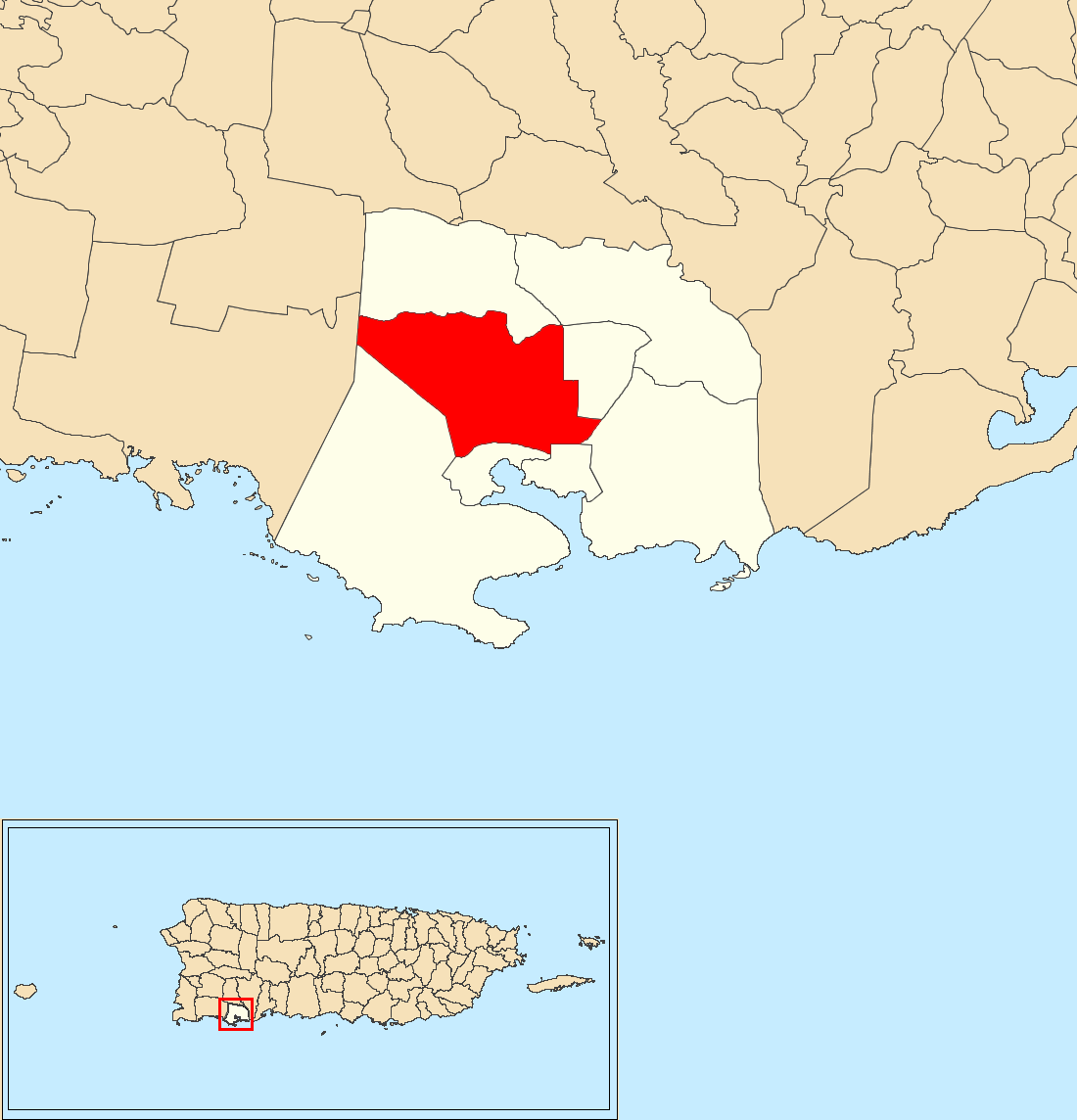 Ciénaga, Guánica, Puerto Rico locator map